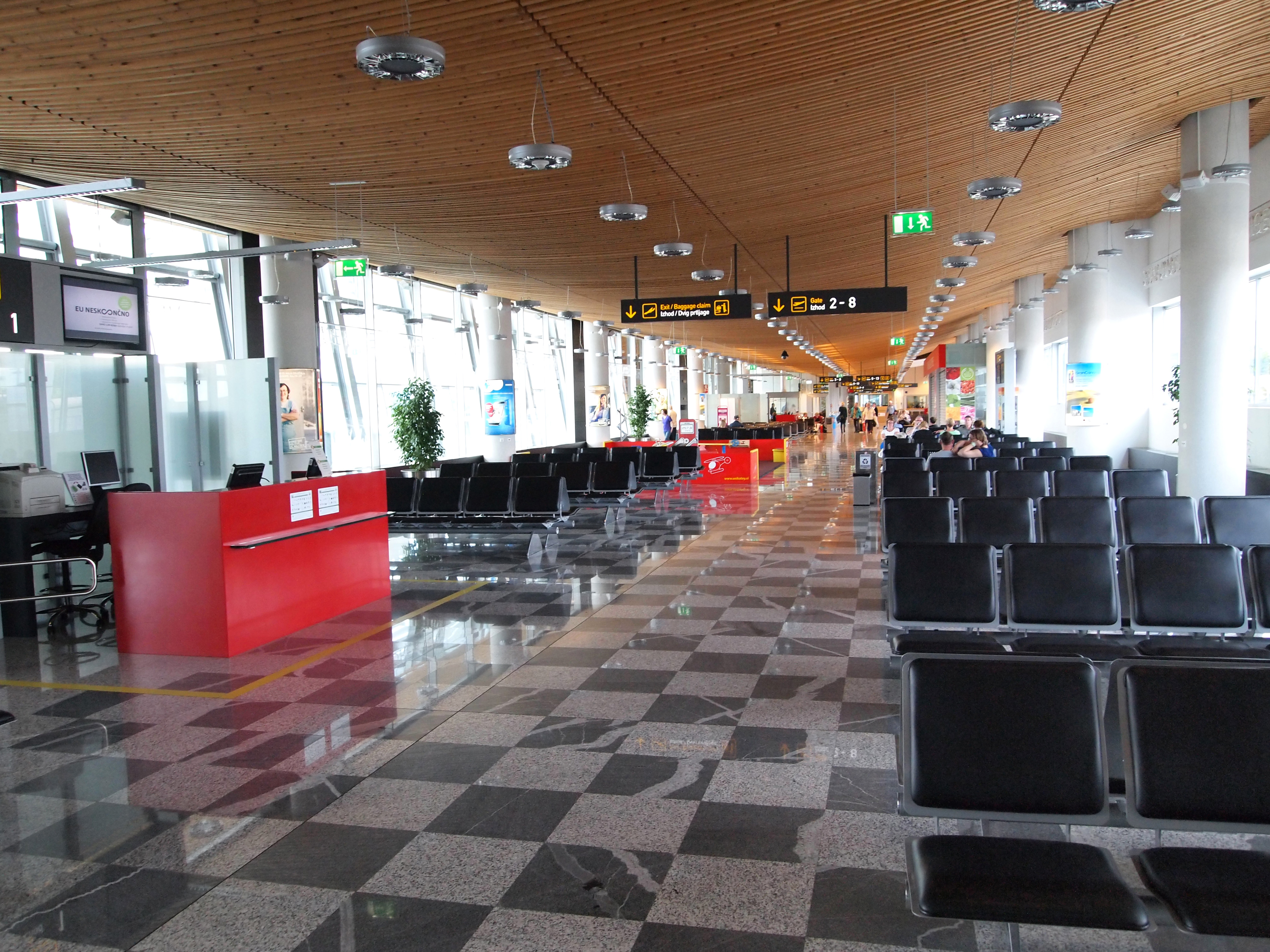 View of interior in Ljubljana Airport. This photograph was taken with an Olympus E-PL1